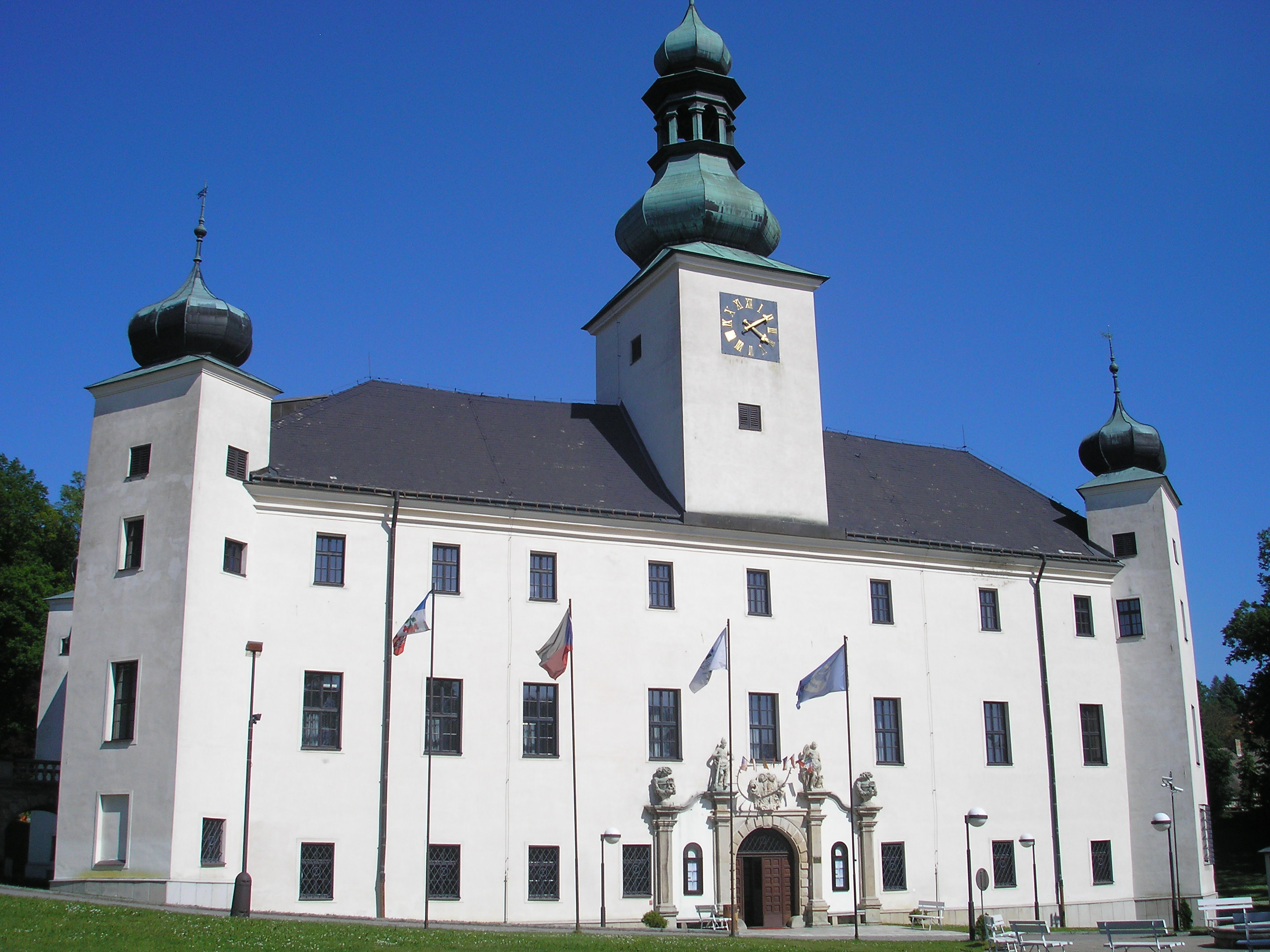 Castle in Třešť